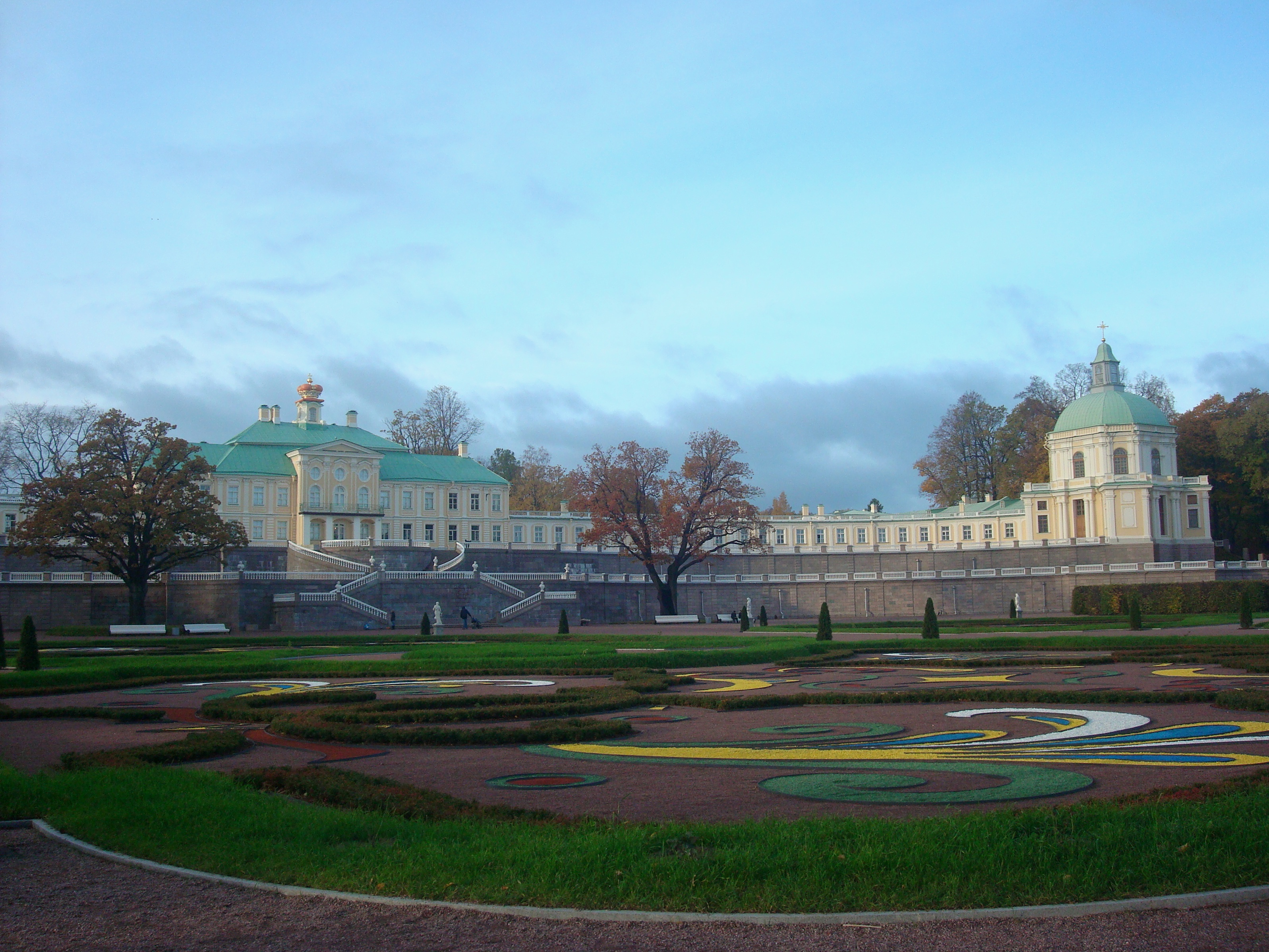 Grand Menshikov palace in Oranienbaum (Russia). View from the Lower garden.